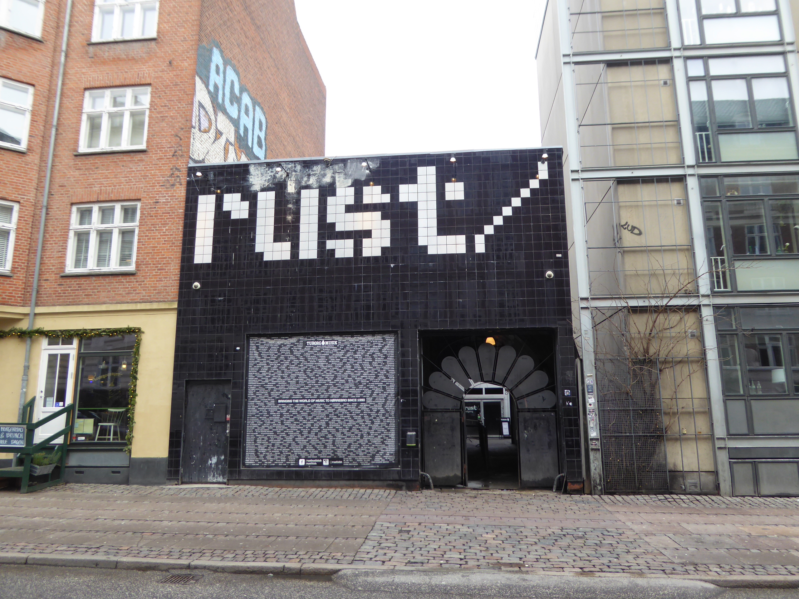 The music venue Rust at Guldbergsgade in Nørrebro in Copenhagen.